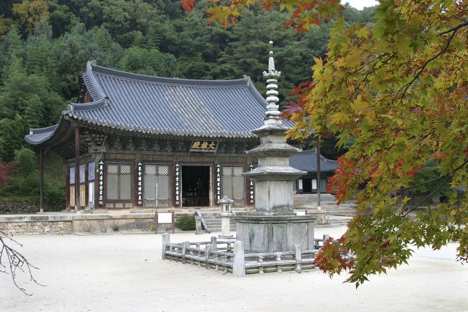 Jikji temple in South Korea